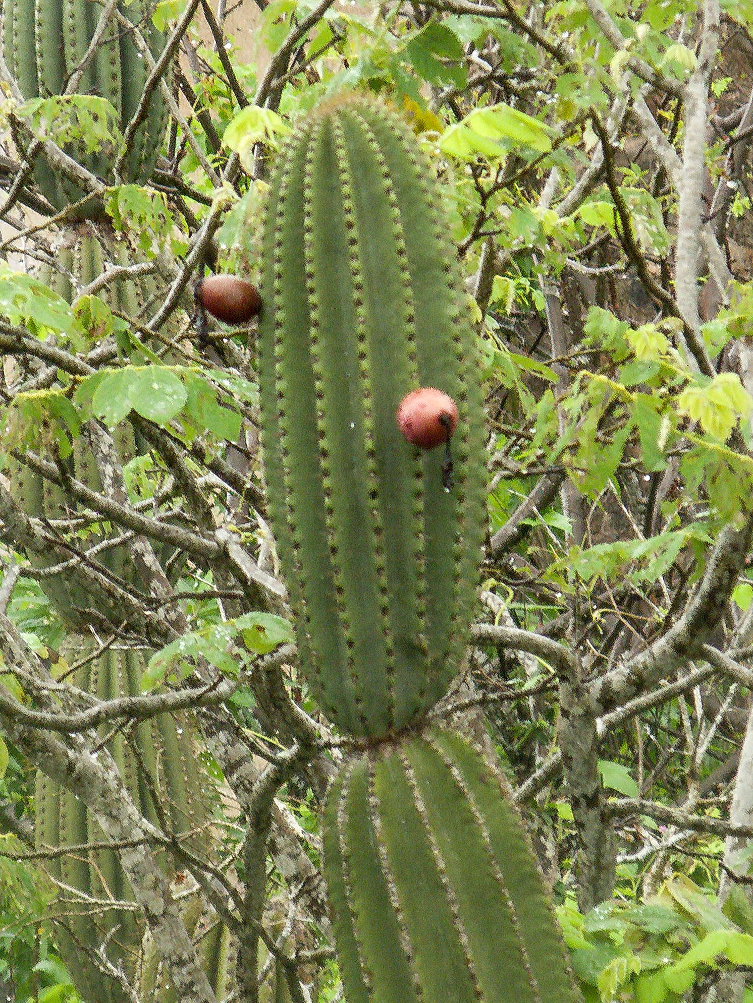 Jasminocereus thouarsii with fruit, grounds of Interpretation Centre, Puerto Baquerizo Moreno, San Cristóbal Island, Galapágos